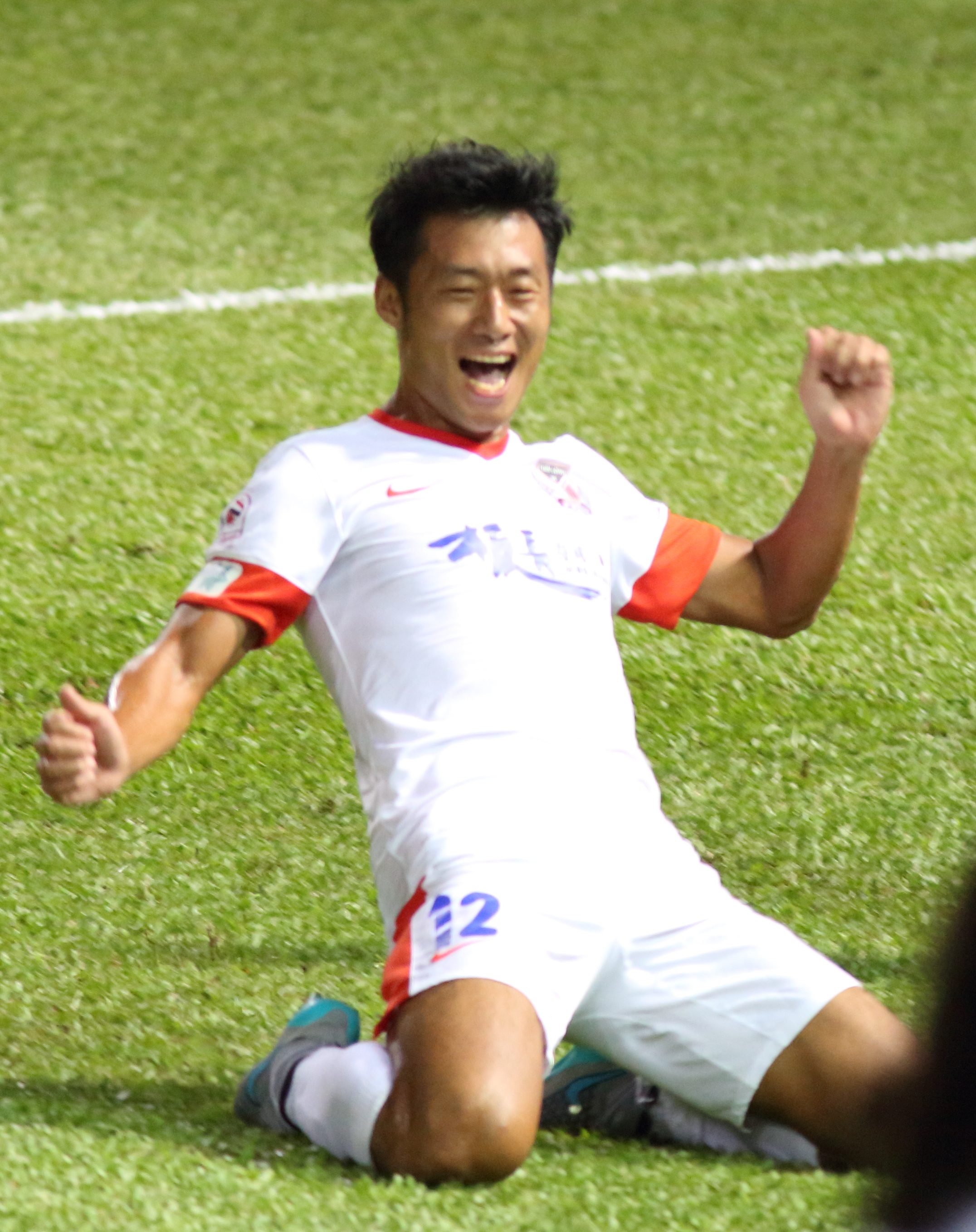 Celebration